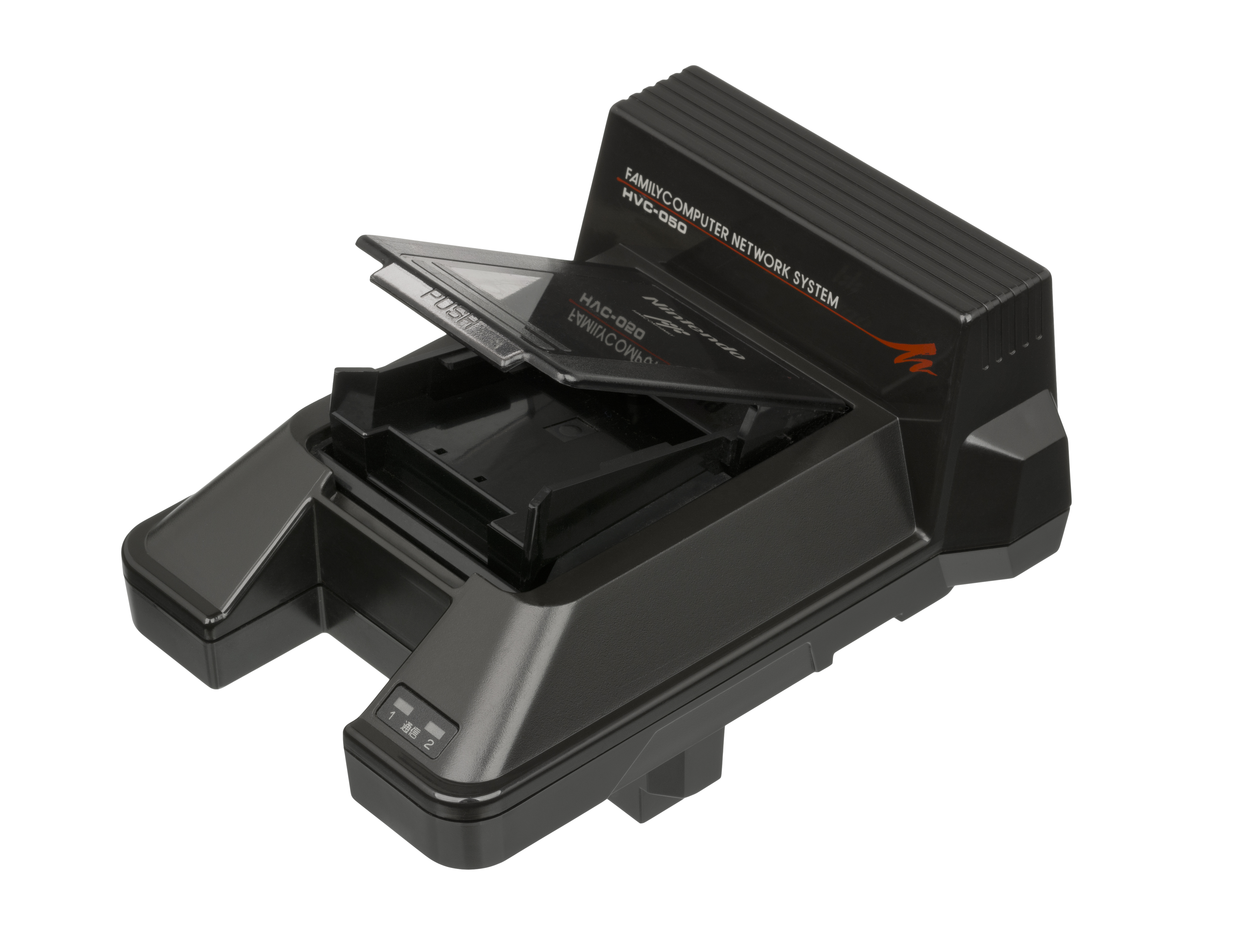 The Nintendo Famicom Network System, a proprietary dial-up modem add-on for the Japanese Nintendo Famicom video game console. This Japanese exclusive accessory was released in 1988 and allowed users limited online abilities like horse-race betting and stock trading.